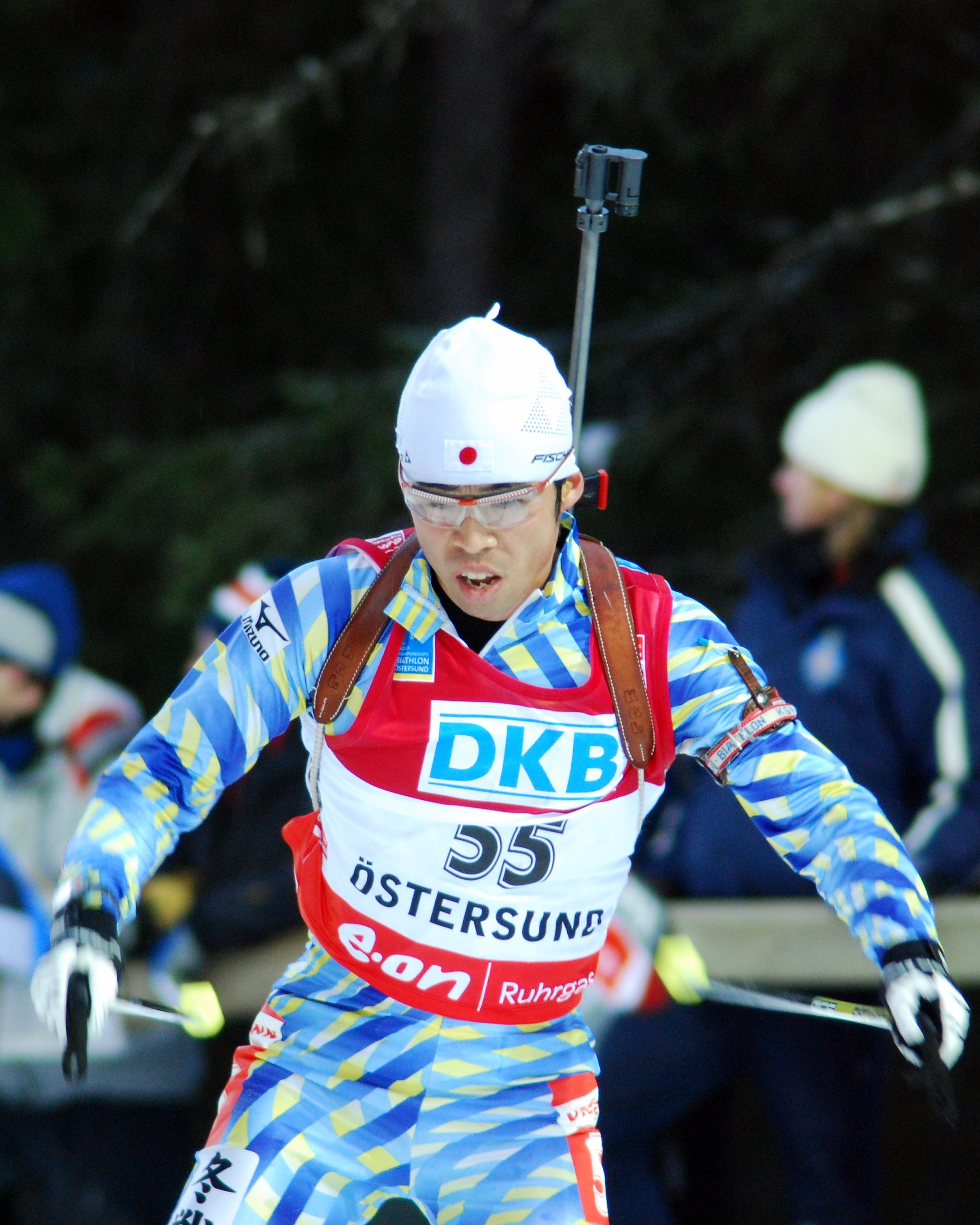 Japanese biathlete Tatsumi Kasahara during the World Championships in Östersund 2008.